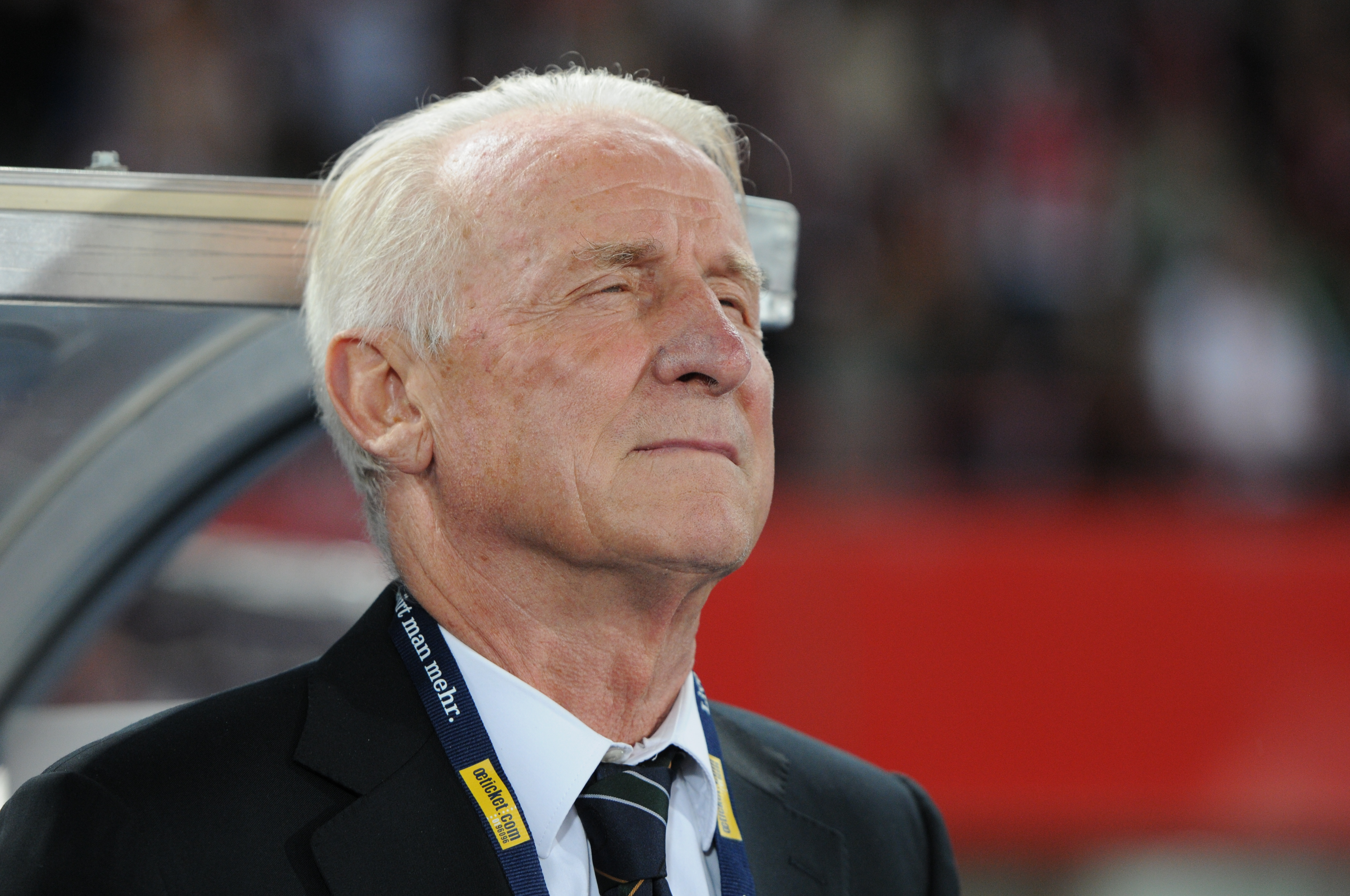 2014 FIFA World Cup qualification (UEFA), Group C: Republic of Ireland national football team at 10. September 2013 before the match against the Austria national football team (0:1) in the Ernst-Happel-Stadion in Vienna. Here: Giovanni Trapattoni, Irish head coach. The making of this work was supported by Wikimedia Austria. For other files made with the support of Wikimedia Austria, please see the category Supported by Wikimedia Österreich.